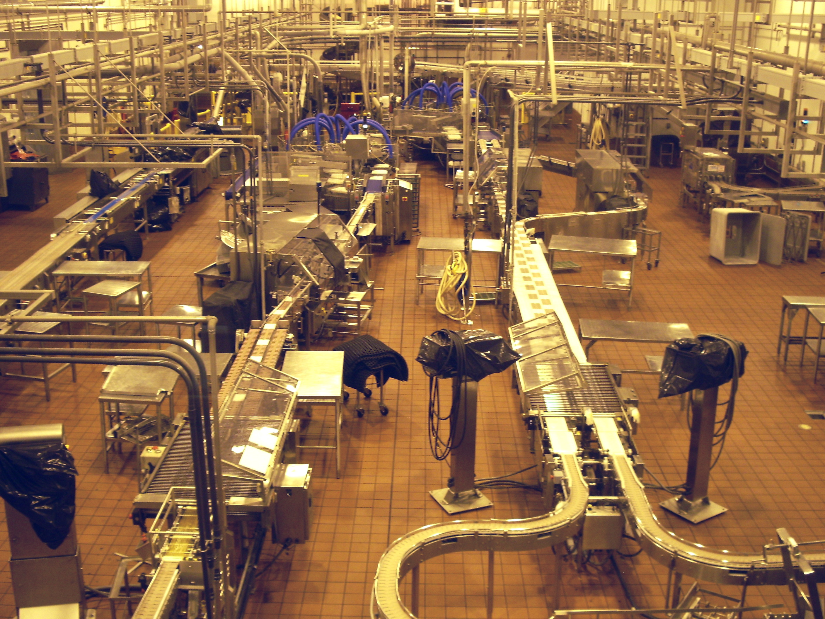 Interior of the Tillamook County Creamery Association processing plant interior where cheese is processed into blocks and wrapped for retail use